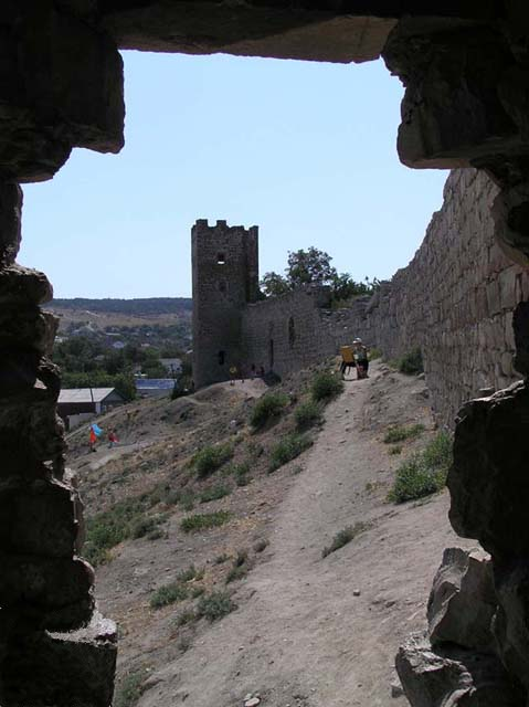 Genoese fortress in Theodosia, Crimea.